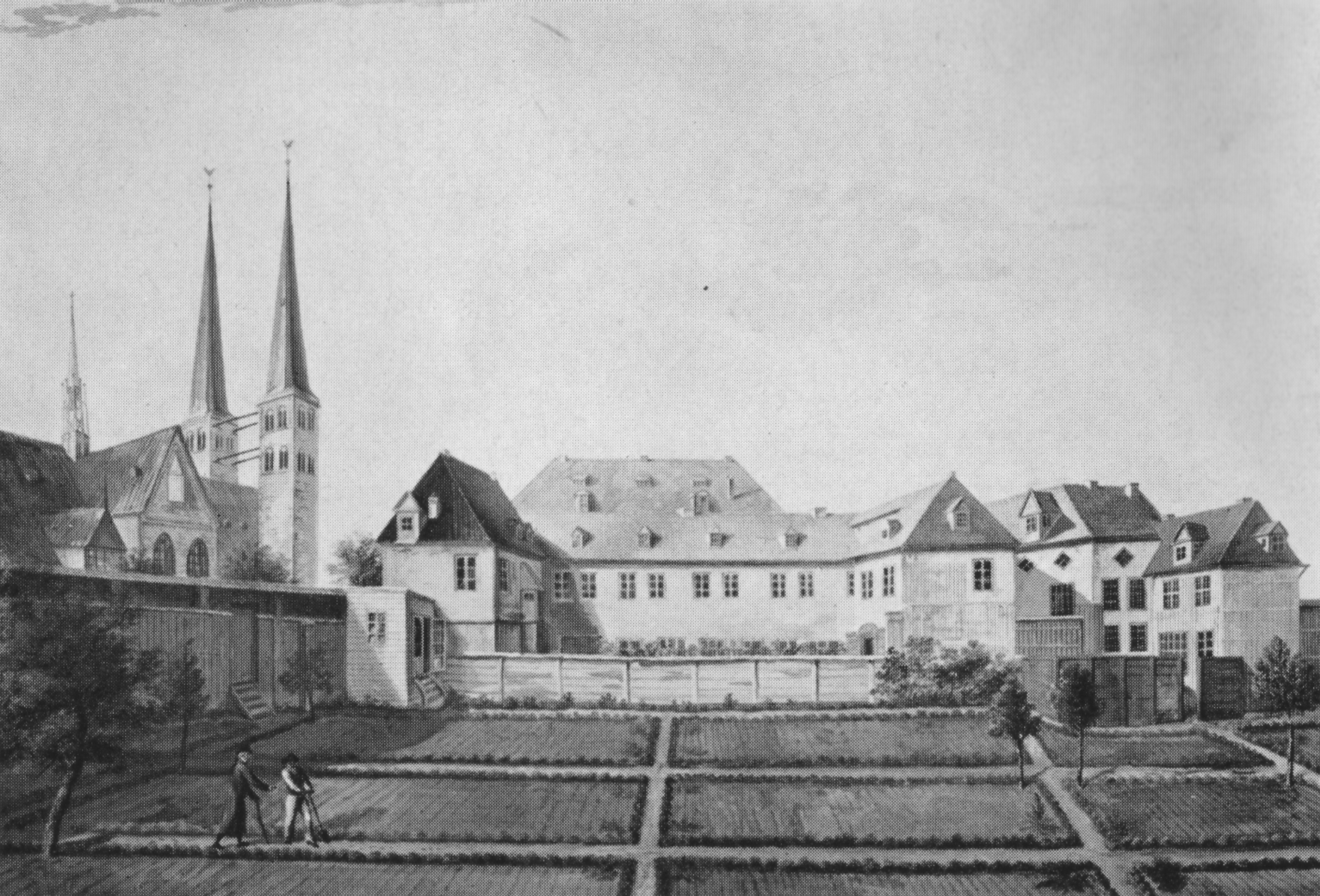 The Bishop's Residence (Bischofshof) in Lübeck in 1818